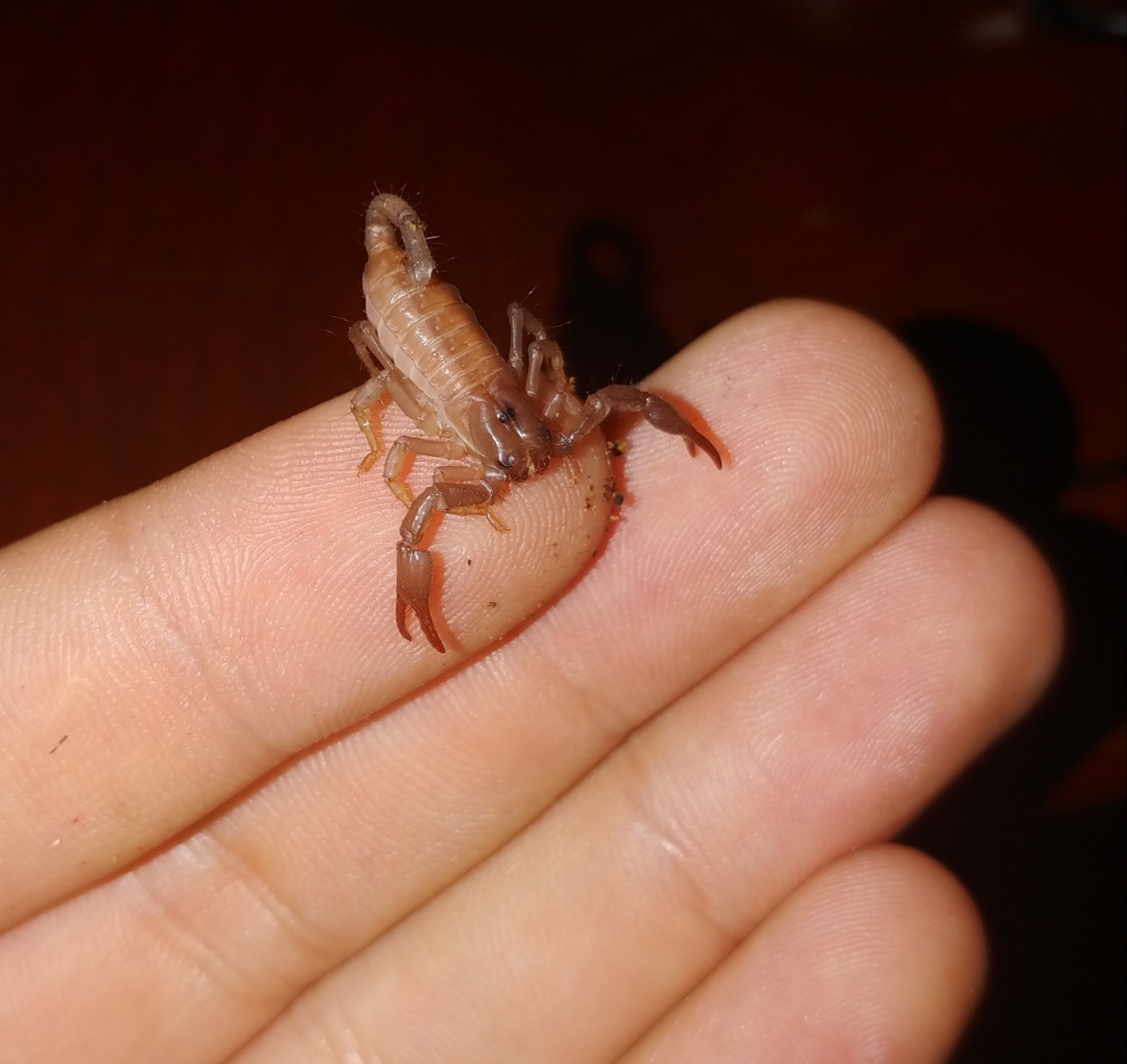 Pic shows the lack of reddish coloration in the claws of Asian Forest scorpion babies as compared to emperor scorpion babies that have more reddish pincers